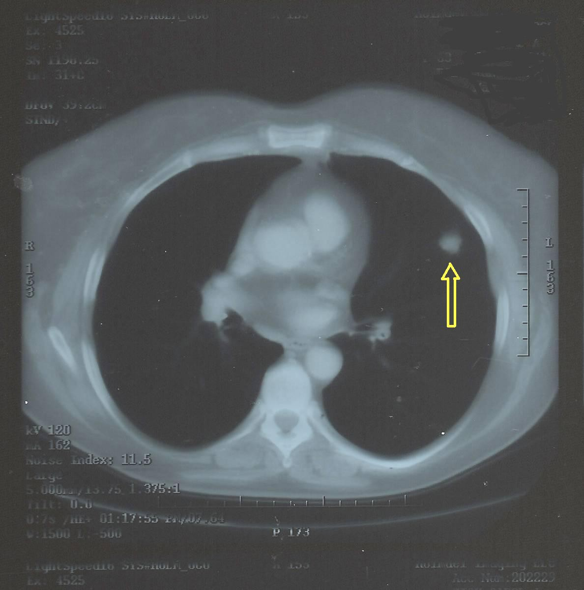 Computed tomography (CT) scan of the chest showing a solitary pulmonary nodule in the left upper lobe. Image was adapted from original source by adding a yellow arrow and increasing brightness.